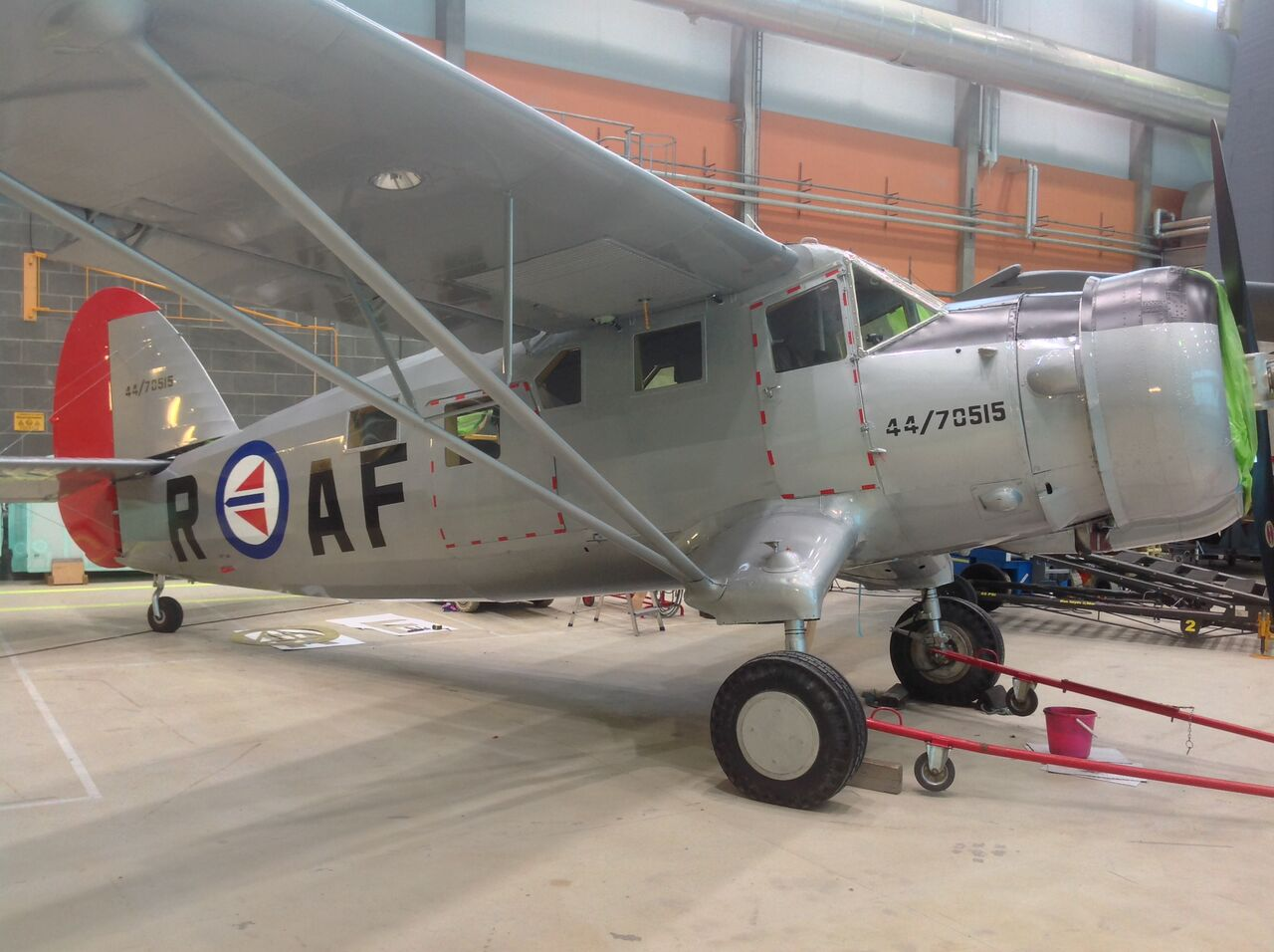 Operated by Norwegian Spitfire Foundation